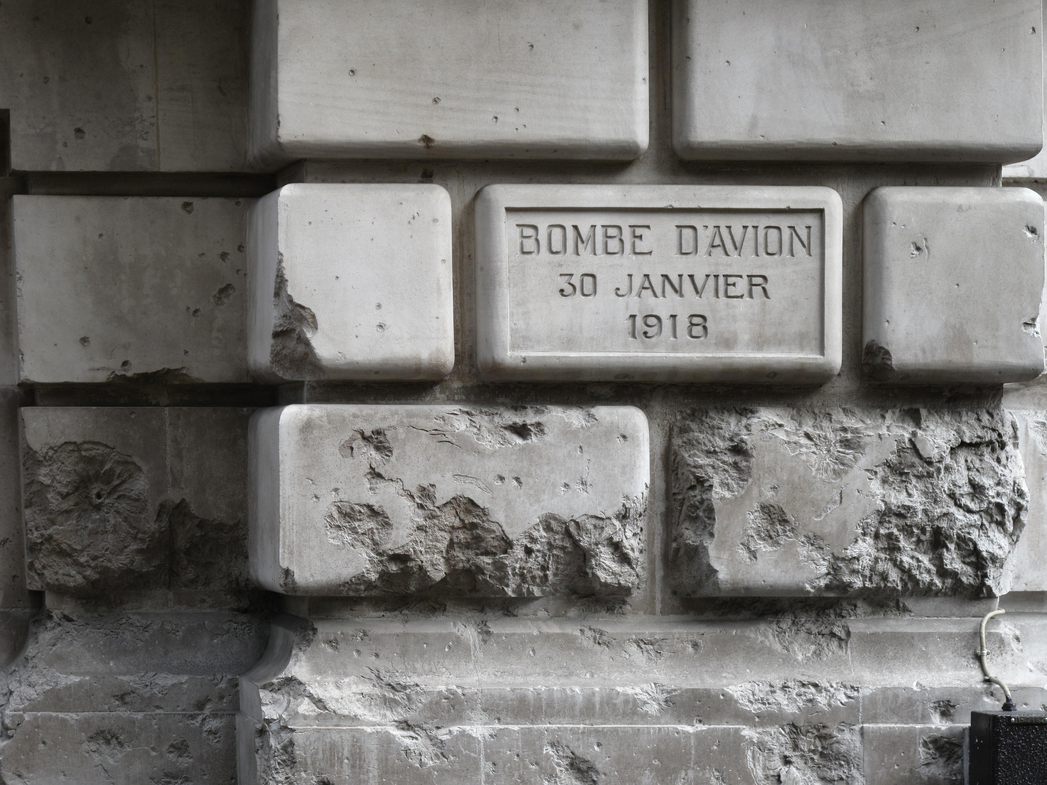 Plane bomb remainings, rue de Choiseul (Paris), at the level of n°15 ; on the wall of the Crédit Lyonnais headquarters, possibly from a Zeppelin-Staaken R.VI raid